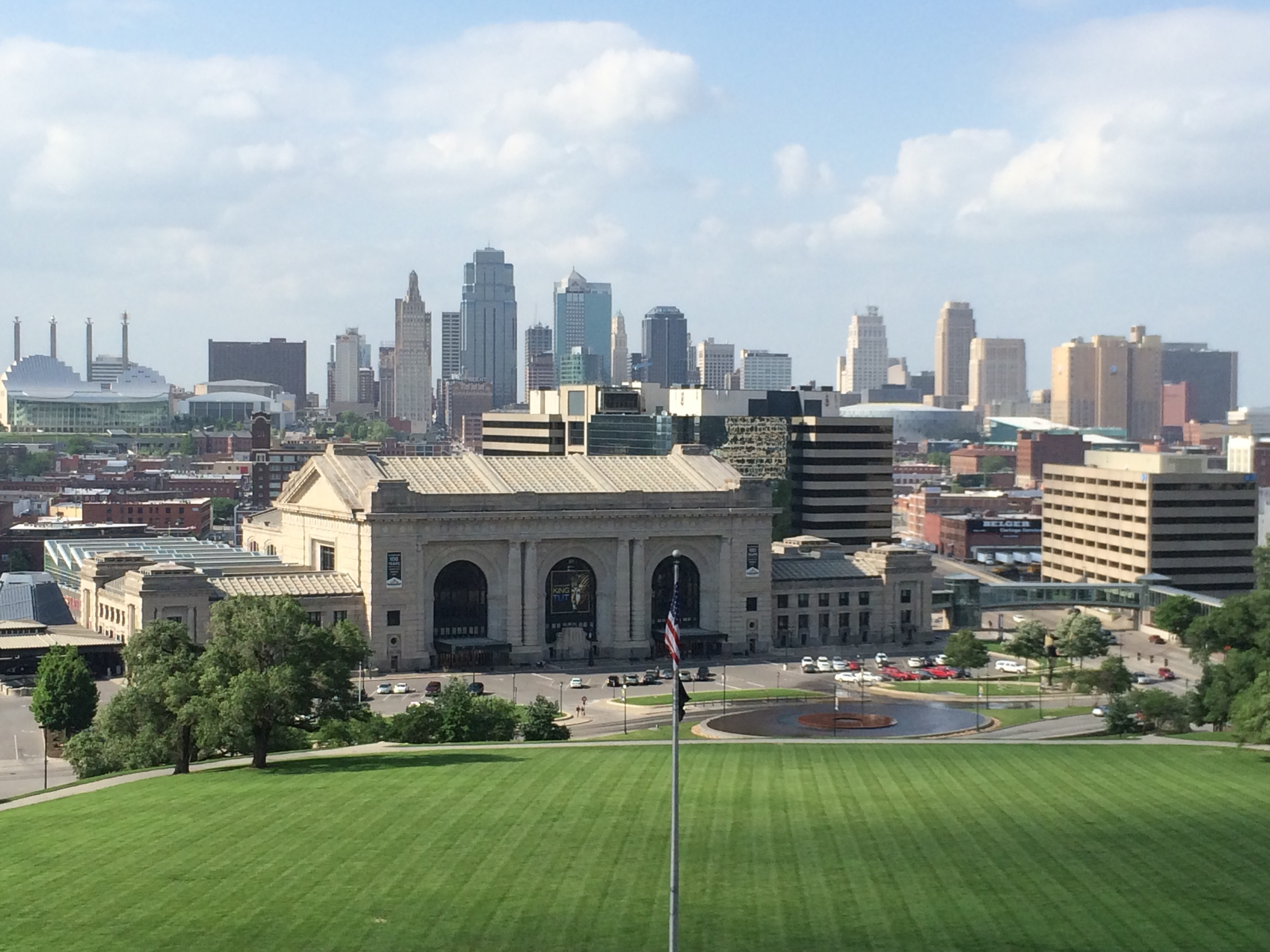 View of the downtown loop from the base of the Liberty Memorial